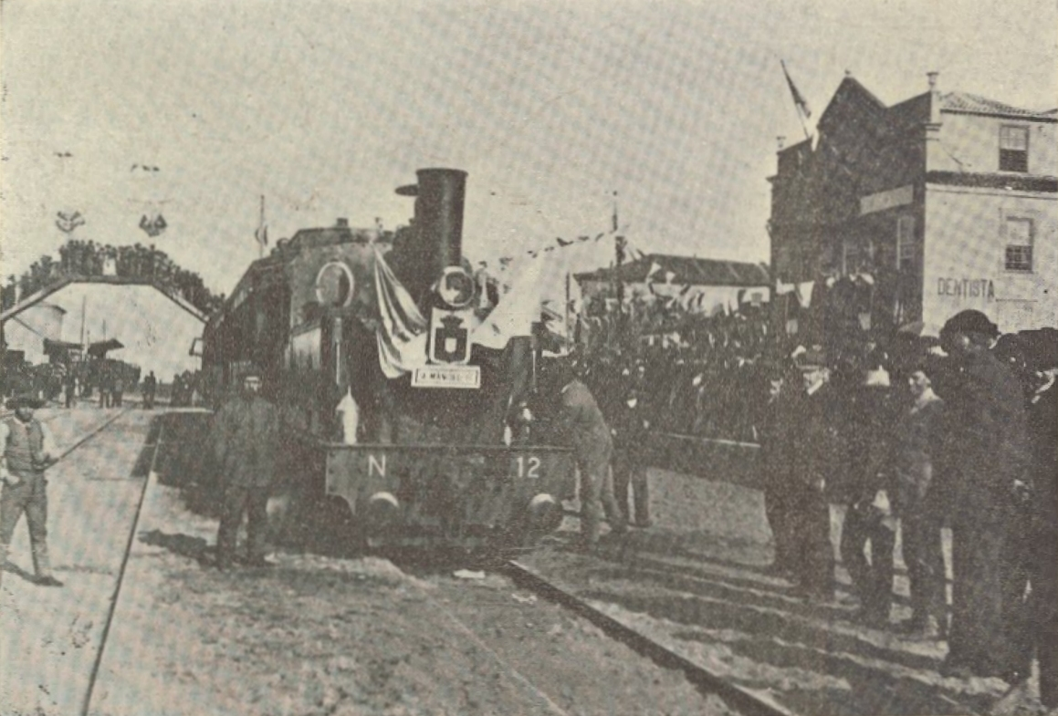 Inaugural train of the Vouga Railway between Espinho and Oliveira de Azemeis, in the Espinho station, in Portugal, on the 21st of December 1908. This photograph was published on the Gazeta dos Caminhos de Ferro magazine no. 1534, of the 16th November 1951, and scanned by the Hemeroteca Municipal de Lisboa.